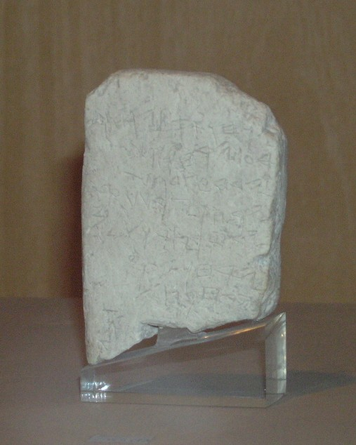 Gezer Calendar: Tablet, Limestone, found in Gezer (Israel), early Iron Age - 10th century BC. One of the earliest hebrew texts. The Tablet tells of the agricultural phases of a year. Istanbul Archaeology Museums, Inv no 2089 T